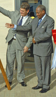 Togolese politician Zarifou Ayéva (right), at the dedication of the new United States Embassy in Lome, Togo.